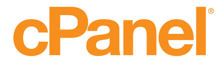 cPanel Inc. logo